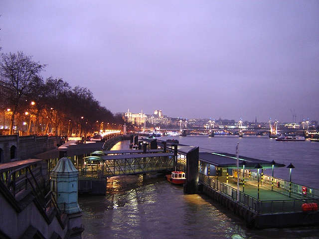 Westminster Pier, London, Victoria Embankment and Hungerford Bridge in background. 14 January 2006. Photographer: Fin Fahey.